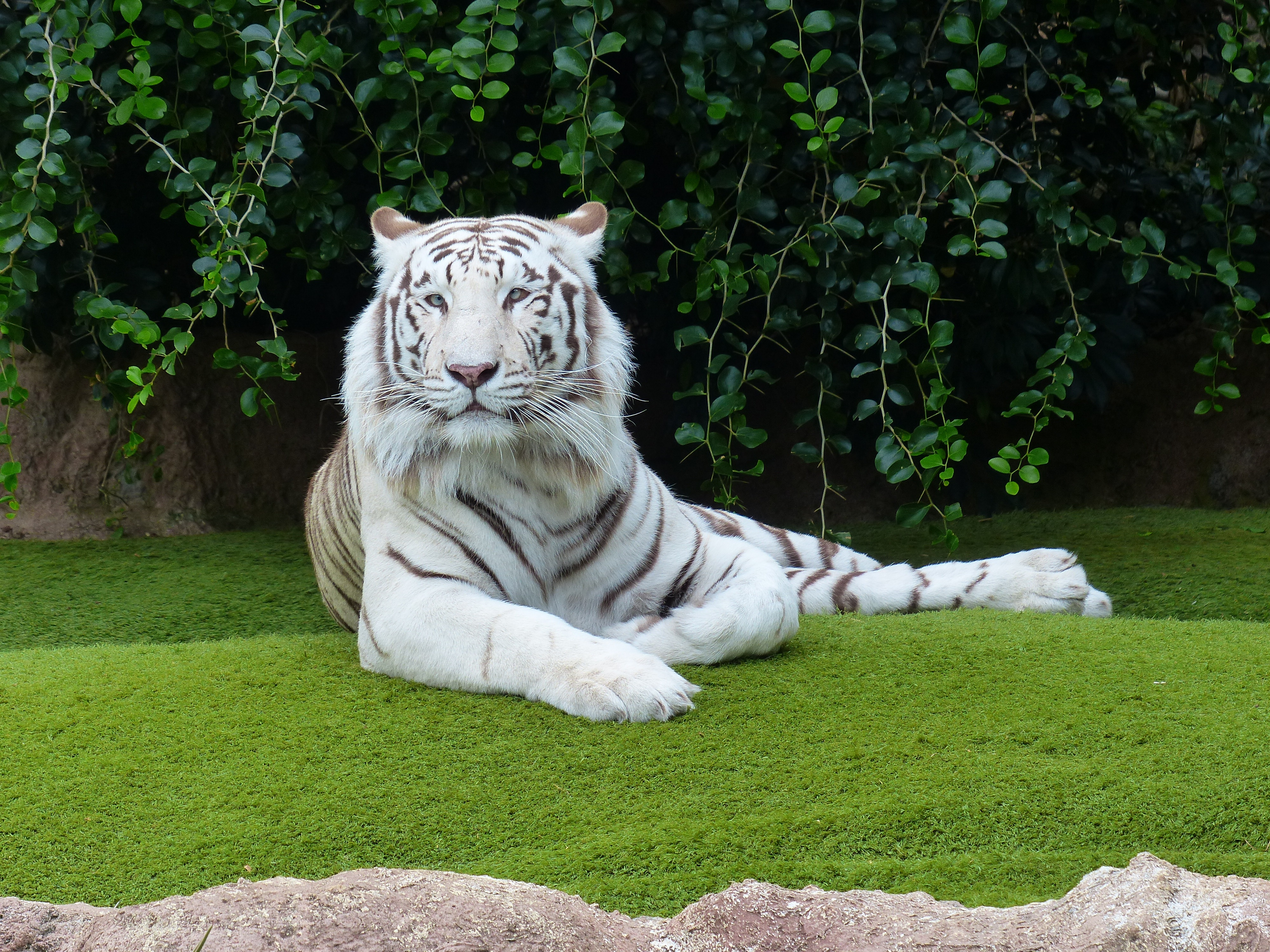 White Bengal tiger